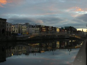 Dublin (Ireland) User:Seabhcan wrote at English Wikipedia: Photo from my album taken 2003, free from copyright.